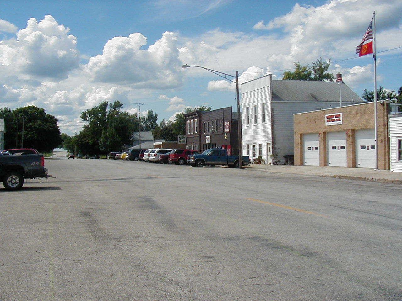 Picture of the main street of Cabery, Illinois on a Saturday afternoon.